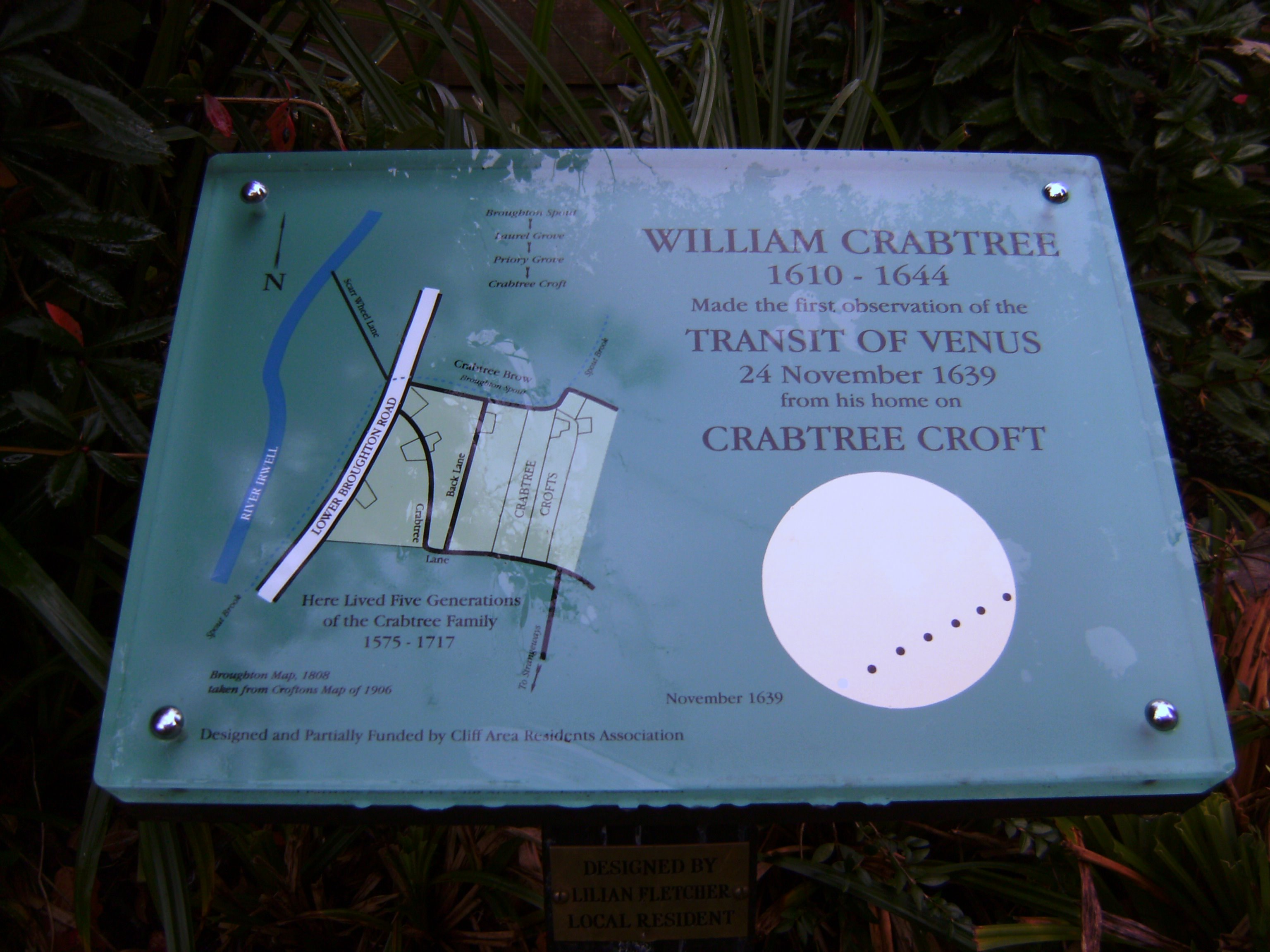 Sign commemorating William Crabtree's observation of the transit of Venus at 388-90 Lower Broughton Road, Salford